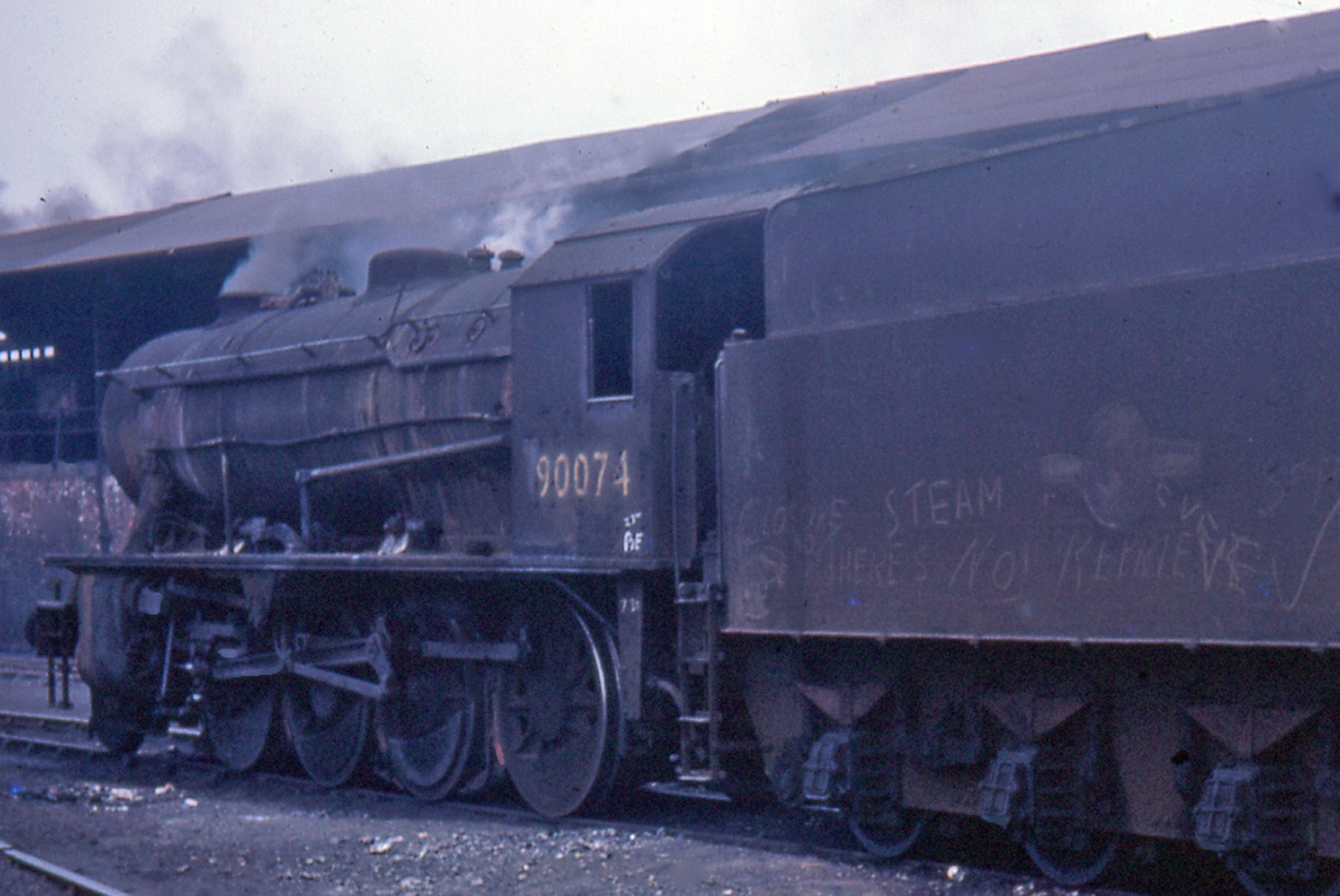 90074 at West Hartlepool shed towards the end of steam in the north-east, summer 1967.